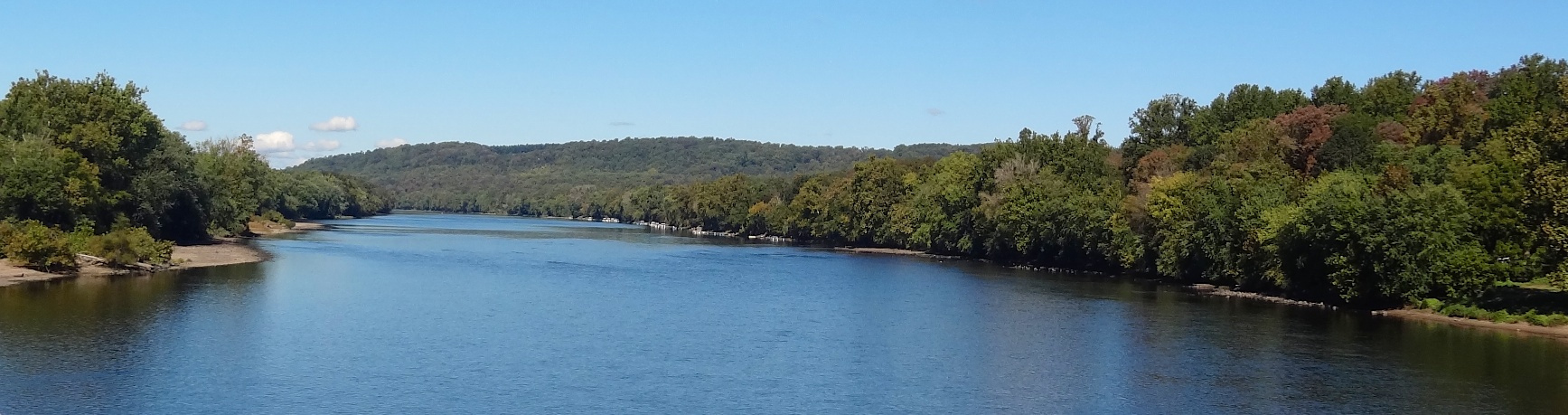 View of the area of George Washington's crossing of the Delaware River, looking north from the state line on the Washington Crossing Bridge. Washington Crossing Historic Park in Pennsylvania is on the left (west) and Washington Crossing State Park in New Jersey is on the right (east). The ferry crossing was located here. The nighttime crossing led to the Washington's victory at the Battle of Trenton on the morning of December 26, 1776.